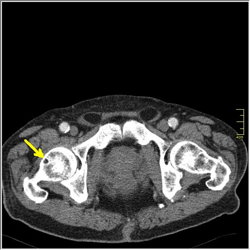 Axial CT image of hip joints. Right hip joint has a herniation pit which indicates femoroacetabular impingement.